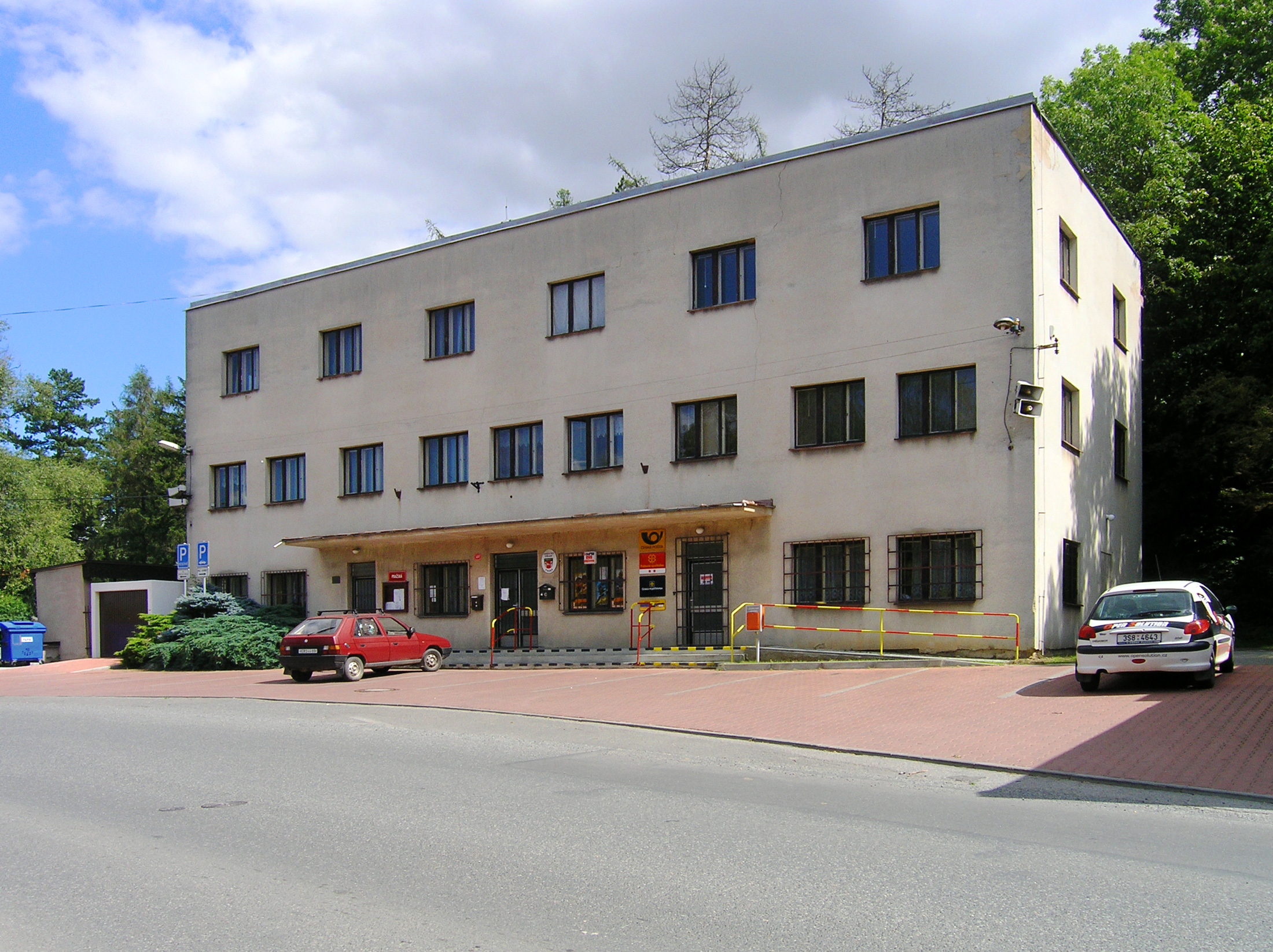 Municipally office in Psáry, Czech Republic